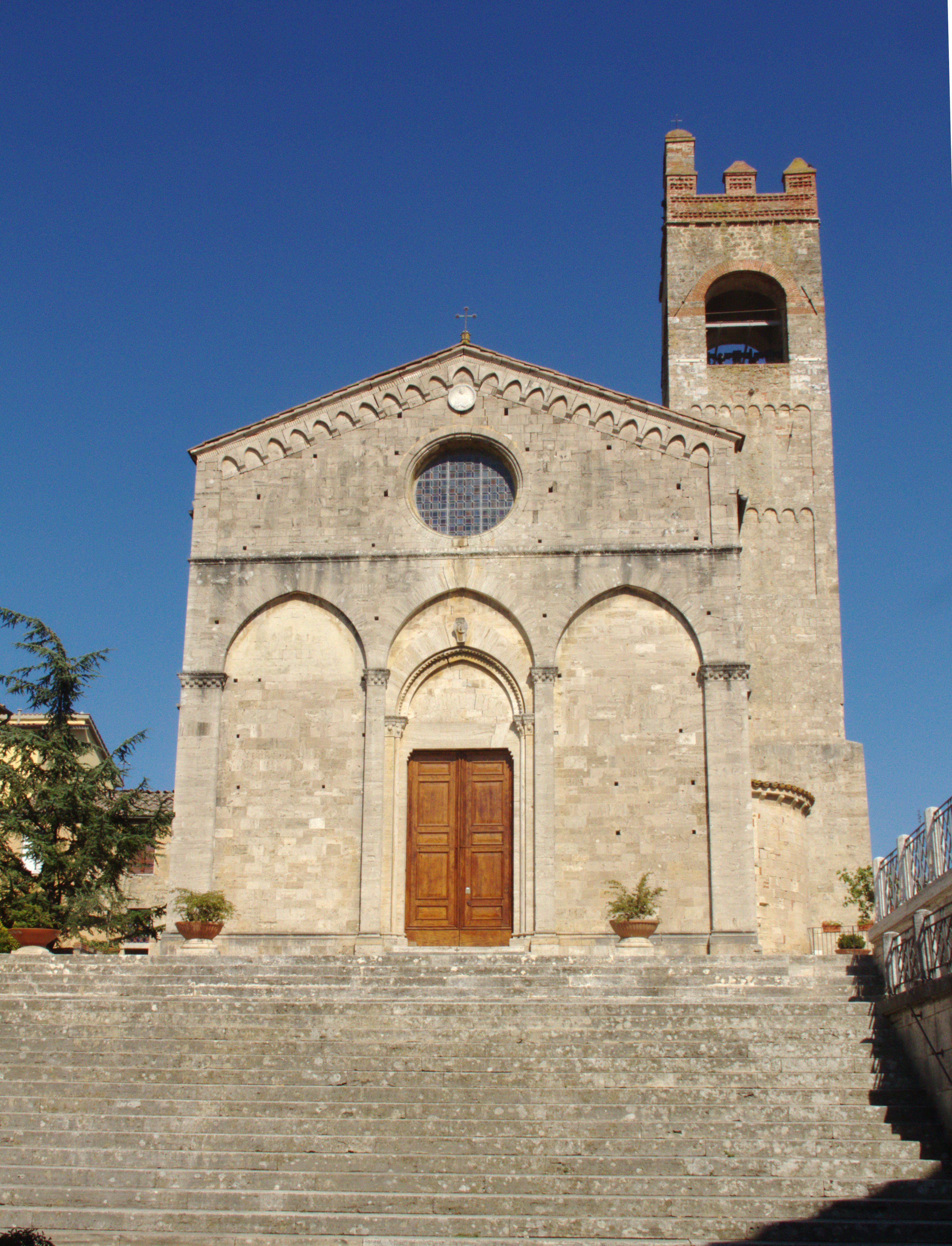 Basilica Sant Agata in Ascinao.